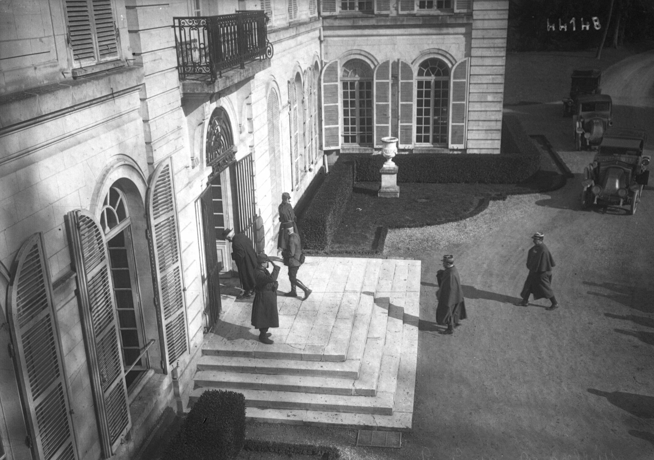 Minister for War Alexandre Millerand arrives at the Grand Quartier Général